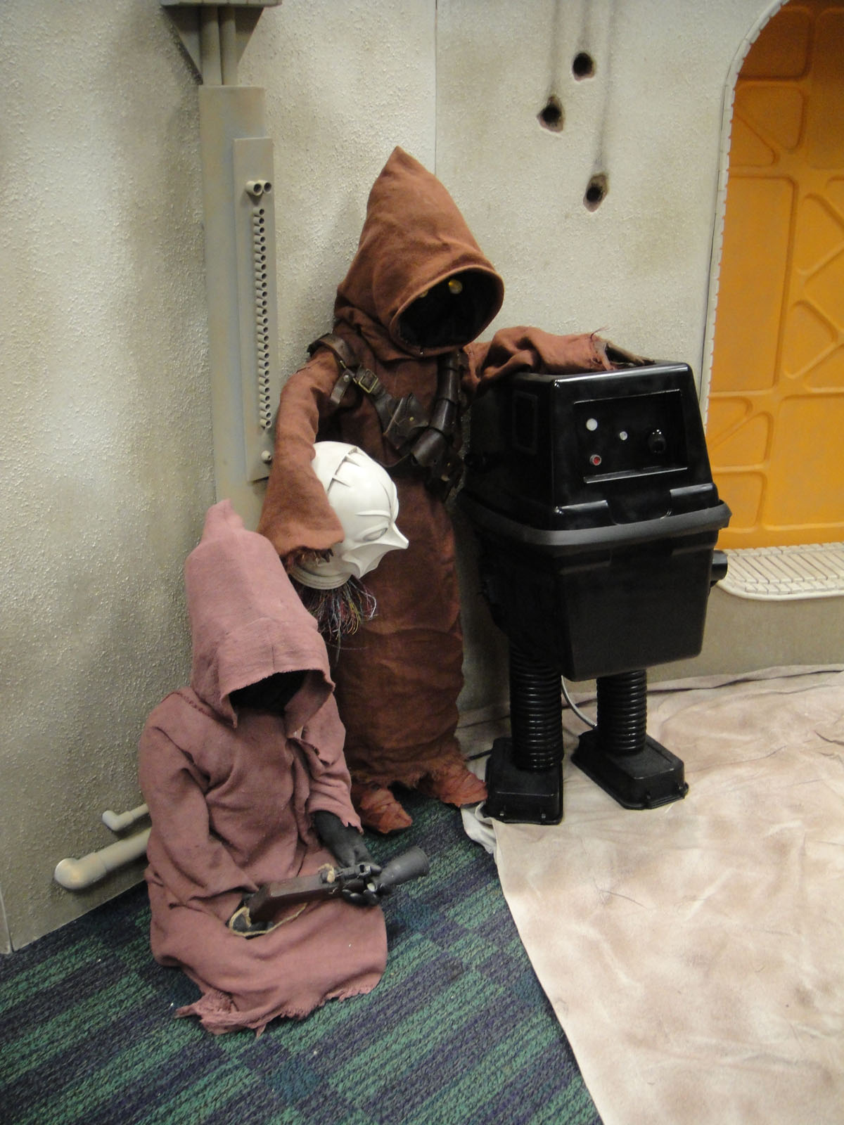 Star Wars Celebration V - 501st room - Jawas hanging out in Mos Eisley